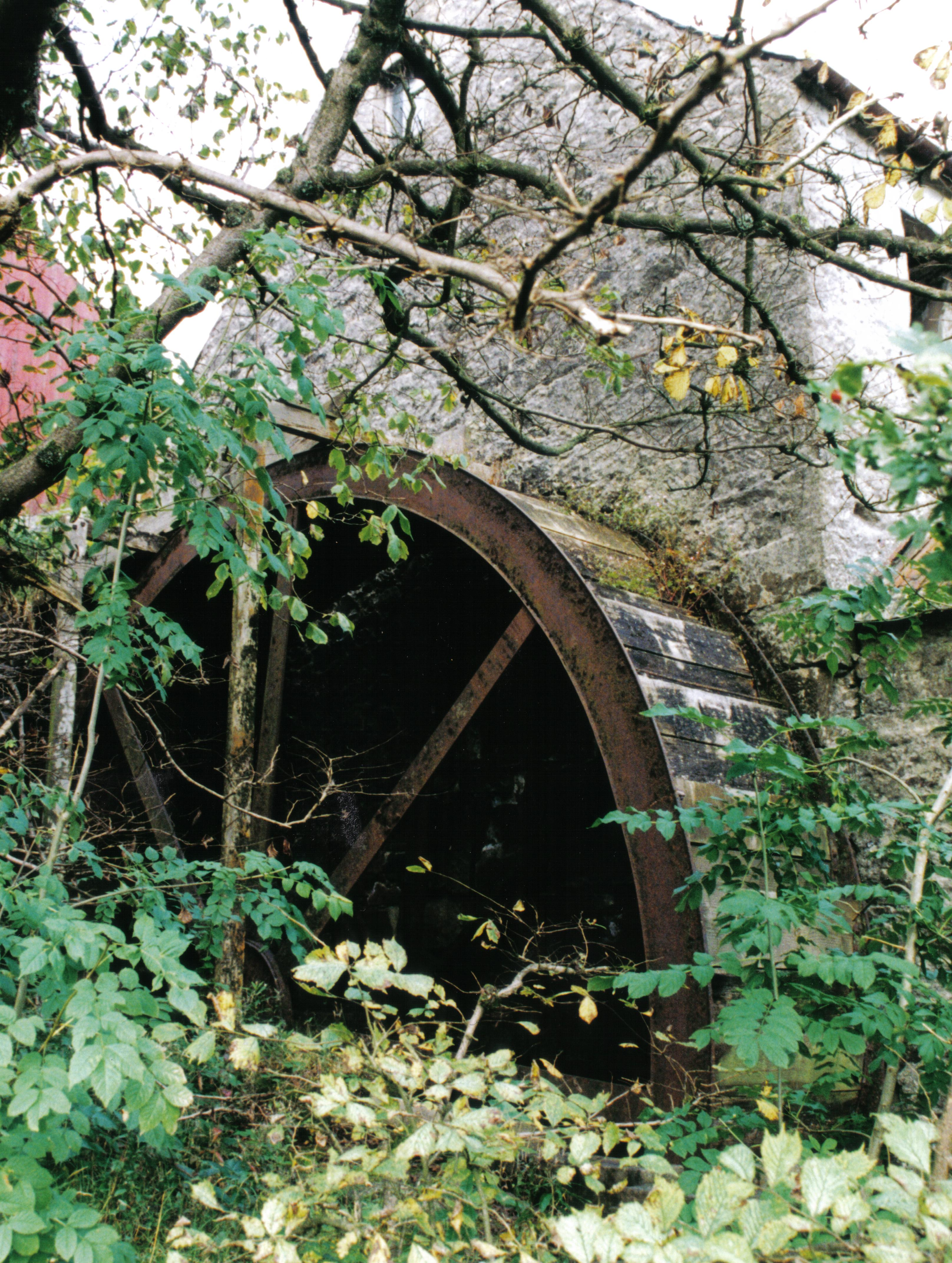 The overshot waterwheel and Water Wall at Coldstream Mill in North Ayrshire near Beith, circa 1999.